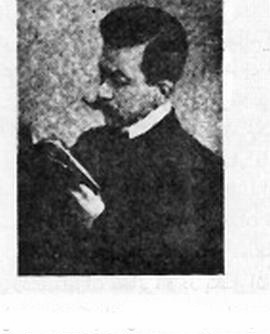 MIRZĀ ḤOSAYN KASMĀʾI, a constitutionalist active in the revolutionary movement in Gilan led by Mirzā Kuček Khan Jangali.